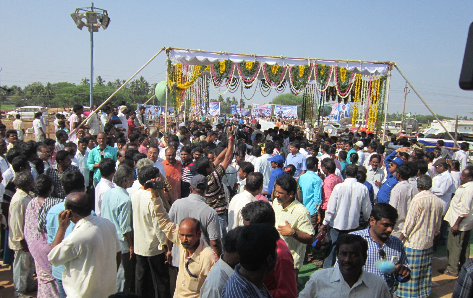 public attened funneral of mastan babu